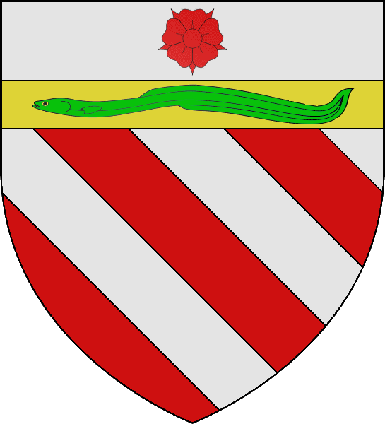 Escudo de Armas de la casa de Orsini